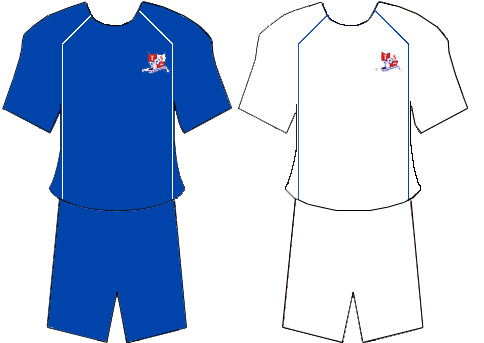 Podbeskidzie Bielsko-Biala Kits